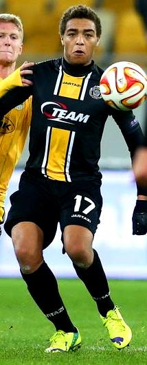 Cyriel Dessers